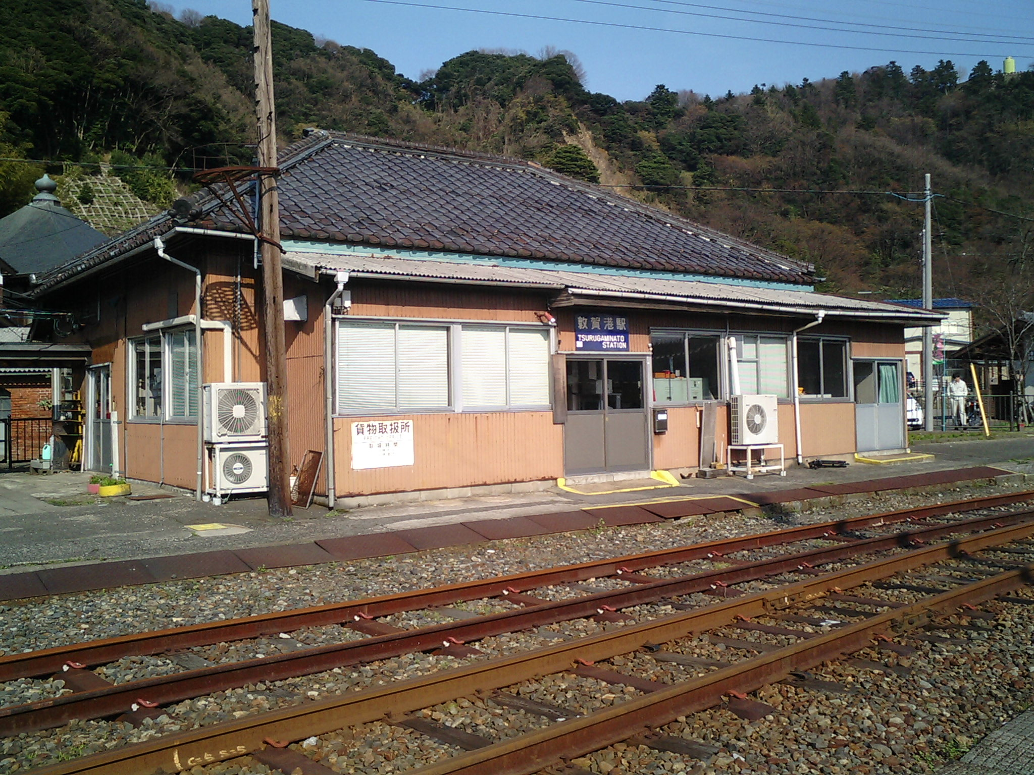 Tsurugaminato Station on the Hokuriku Main Line in Tsuruga City, Fukui Prefecture, Japan